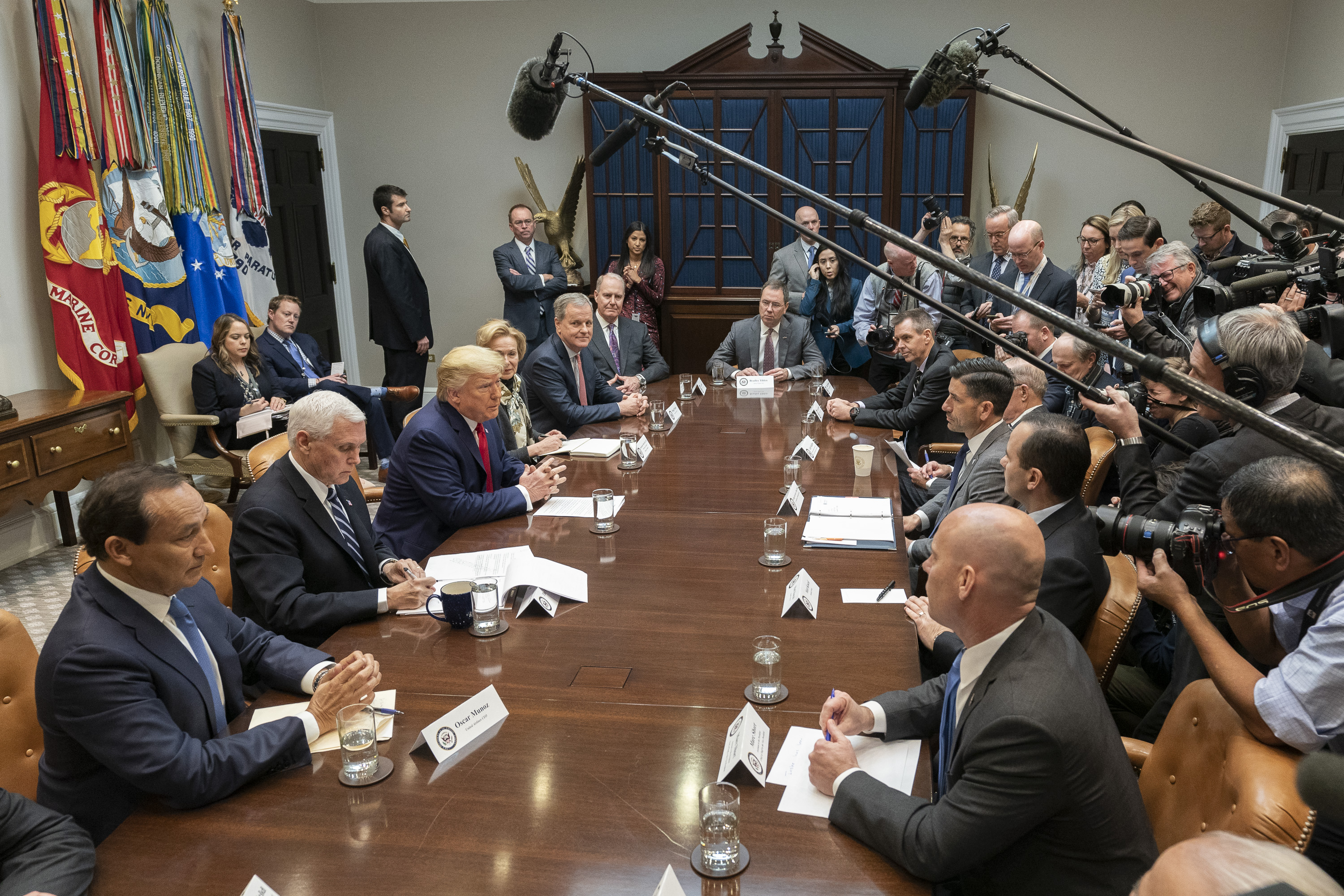 President Donald J. Trump drops-by a meeting with Vice President Mike Pence and airline CEOs discussing the Coronavirus’s possible impact on the travel industry Wednesday, March 4, 2020, in the Roosevelt Room of the White House. (Official White House Photo by Joyce N. Boghosian)